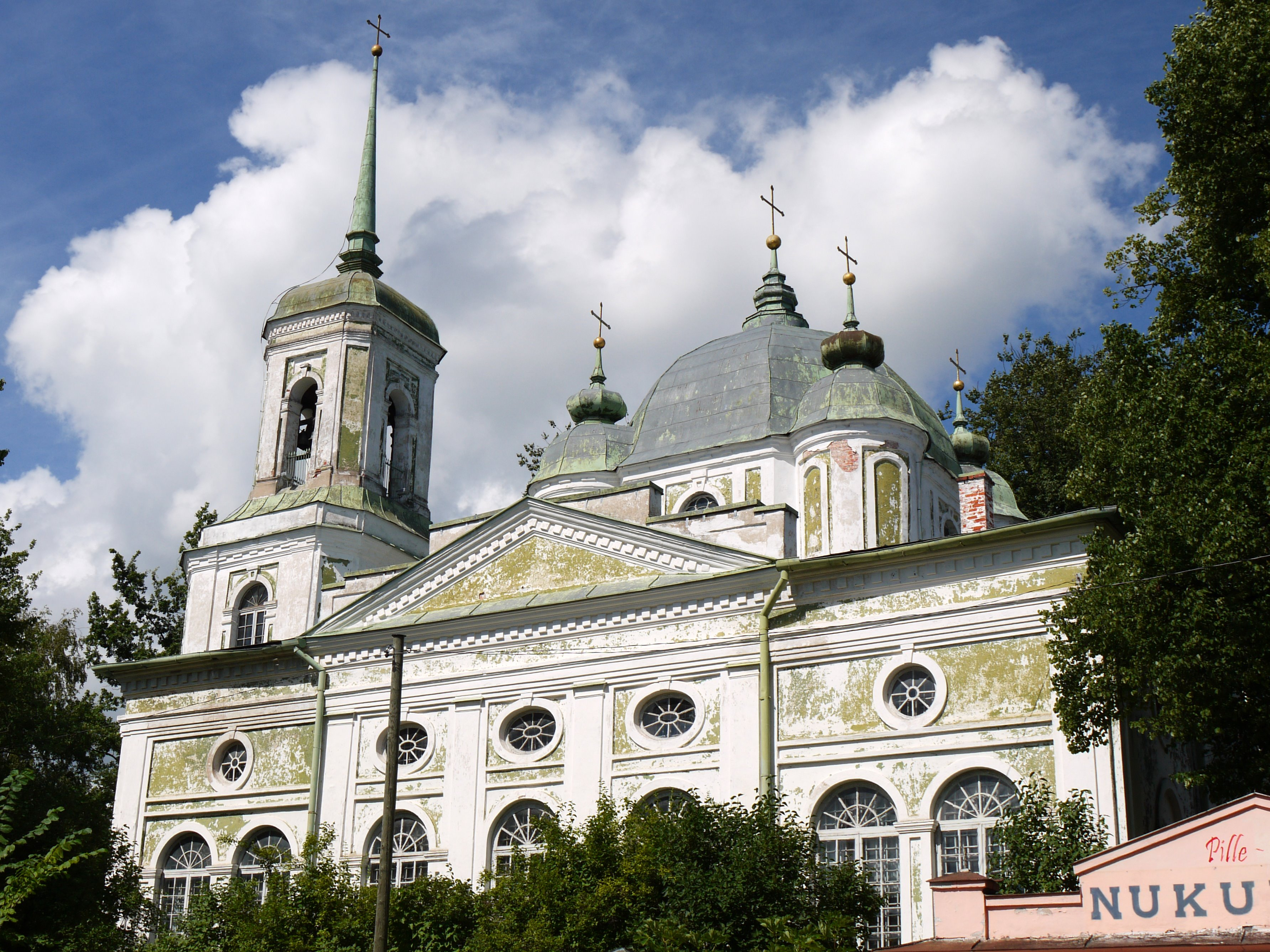 Uspensky church (Tartu)